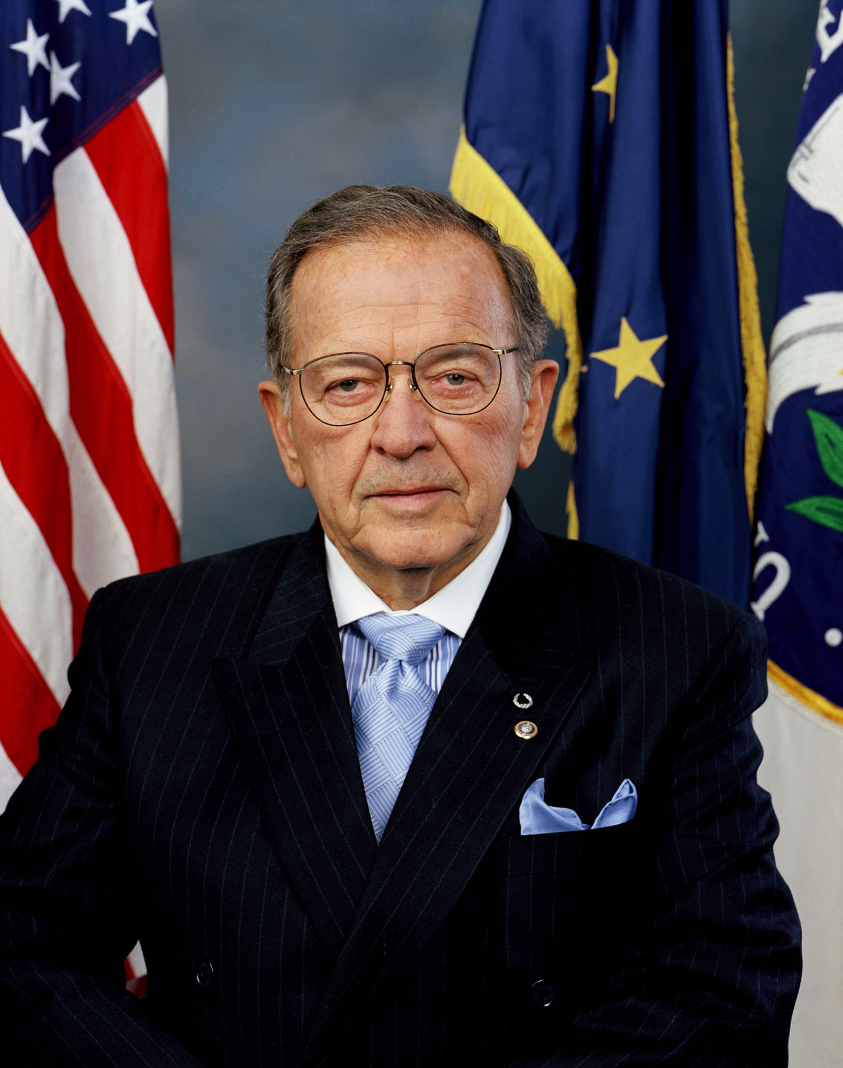 Ted Stevens, United States Senator. Official photo ca. 2005 from Biographical Directory of the United States Congress and Sen. Stevens' press kit.